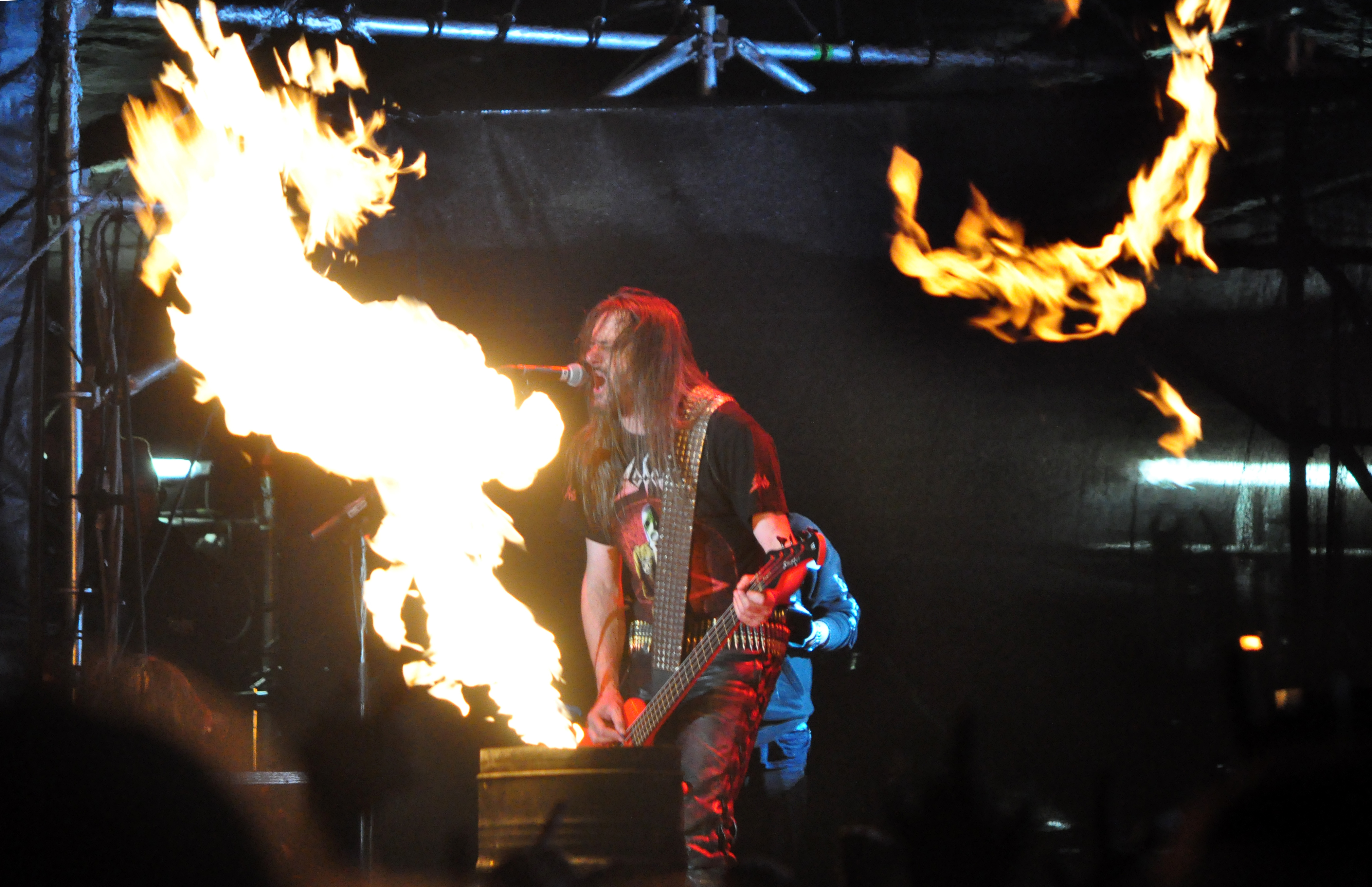 Sodom at Party.San Open Air 2012